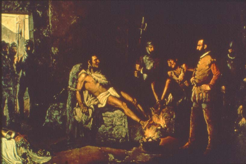 The Torture of Cuahutemoc, a late 19th-century painting by Leandro Izaguirre.